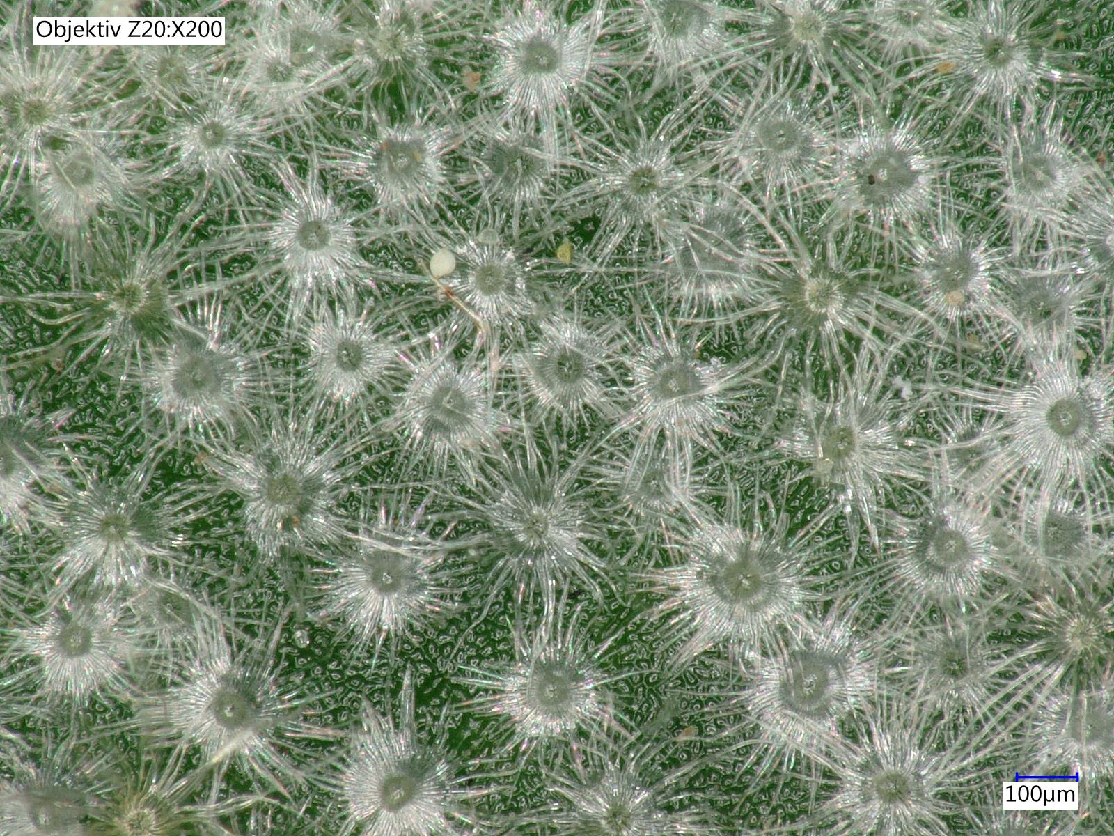 Elaeagnus angustifolia - microscopic image of the leaf surface with trichomes.